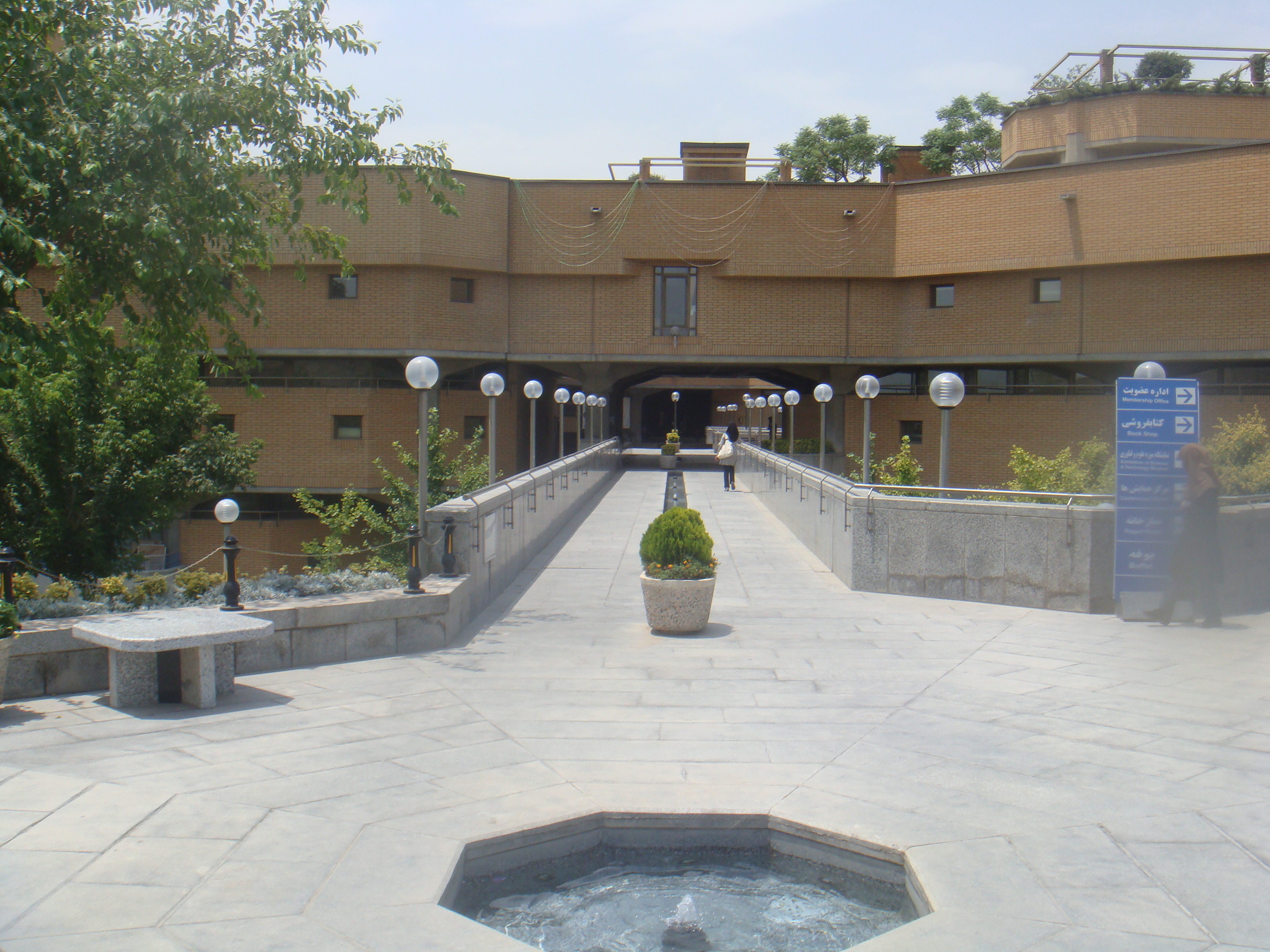 Entrance of National Library (Tehran, Iran)